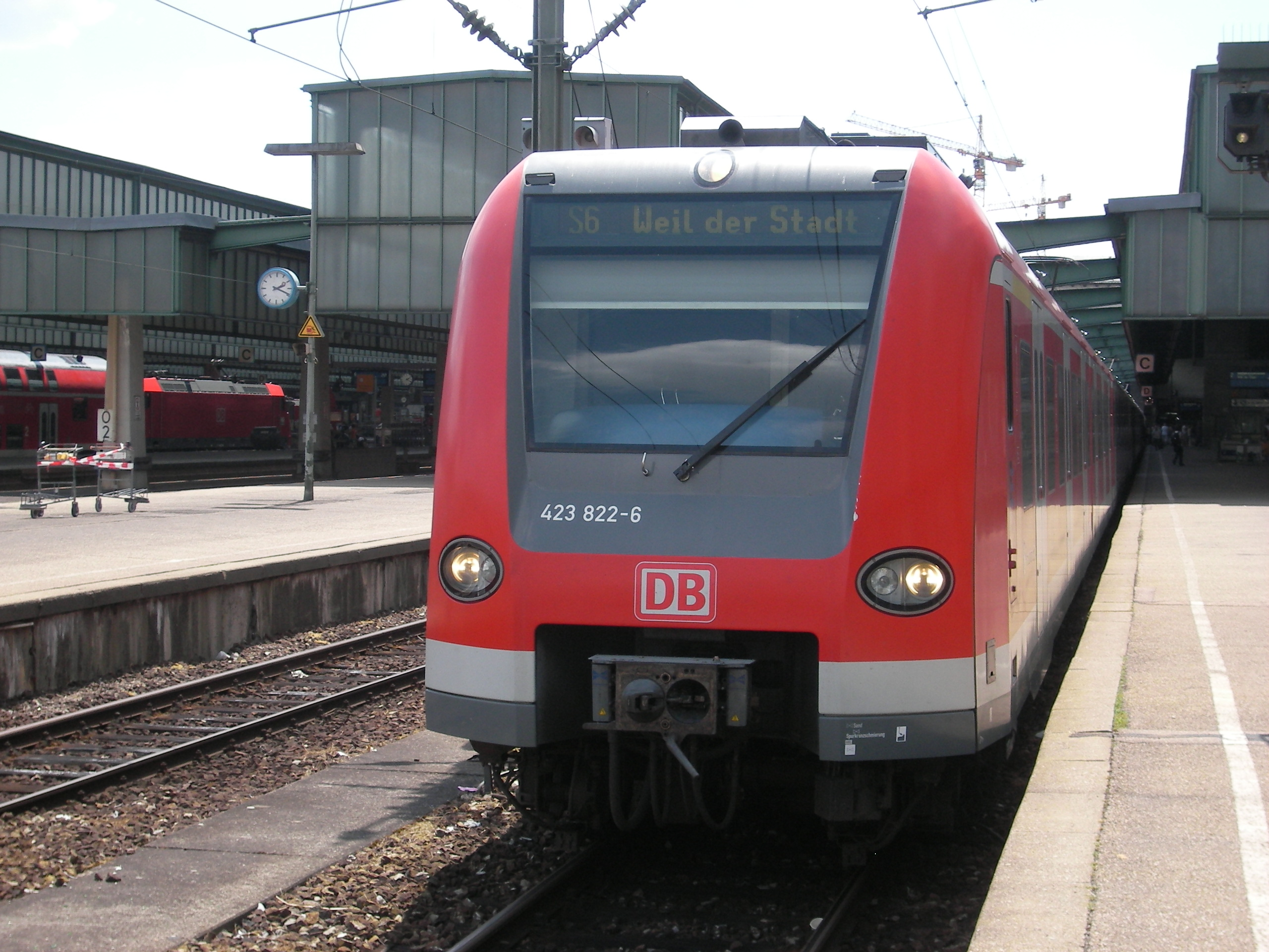 S-Bahn train with destination Weil der Stadt